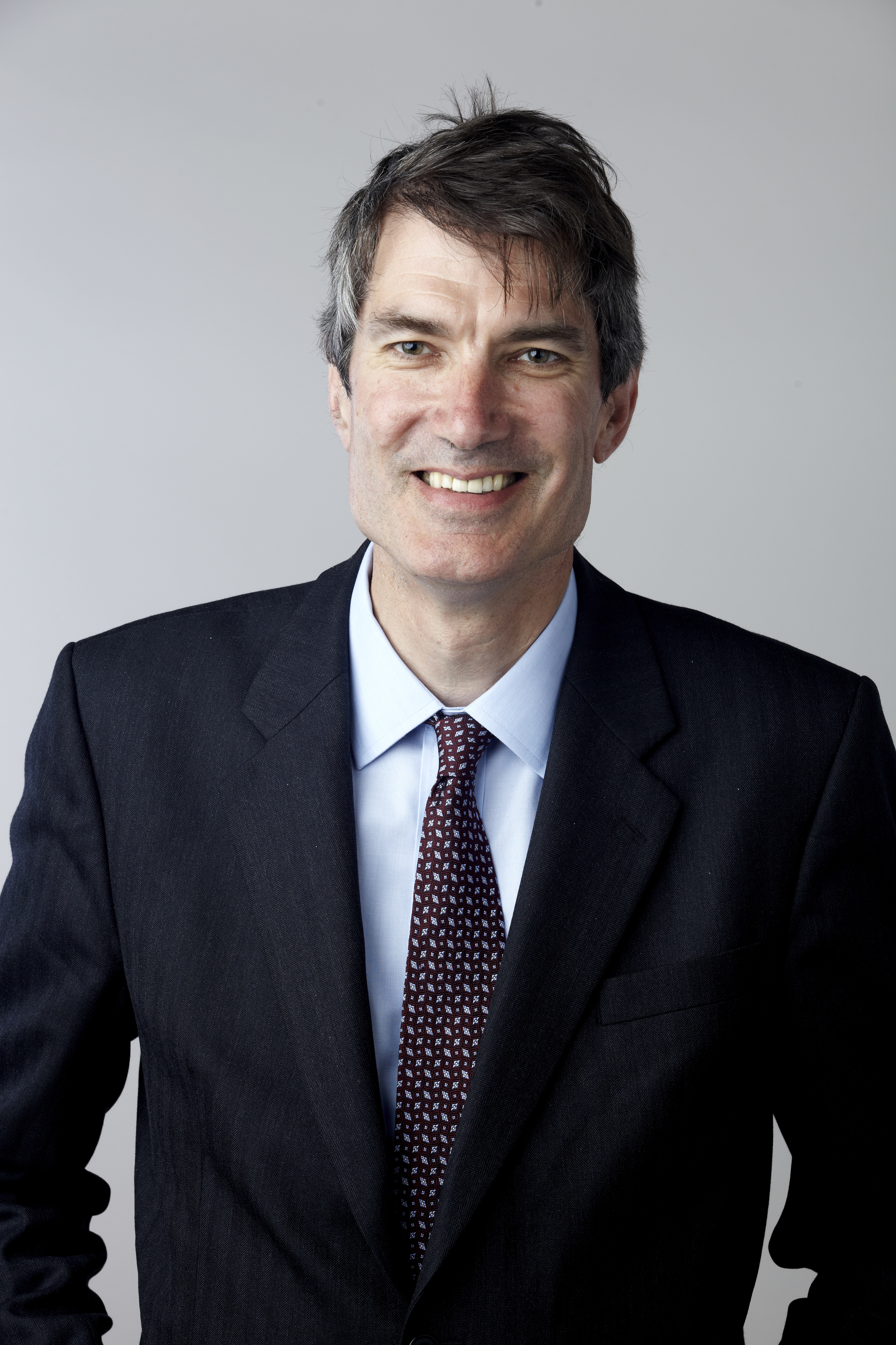 Professor Steven Cowley FRS, Royal Society Fellow elected 2014 Attribution: The Royal Society